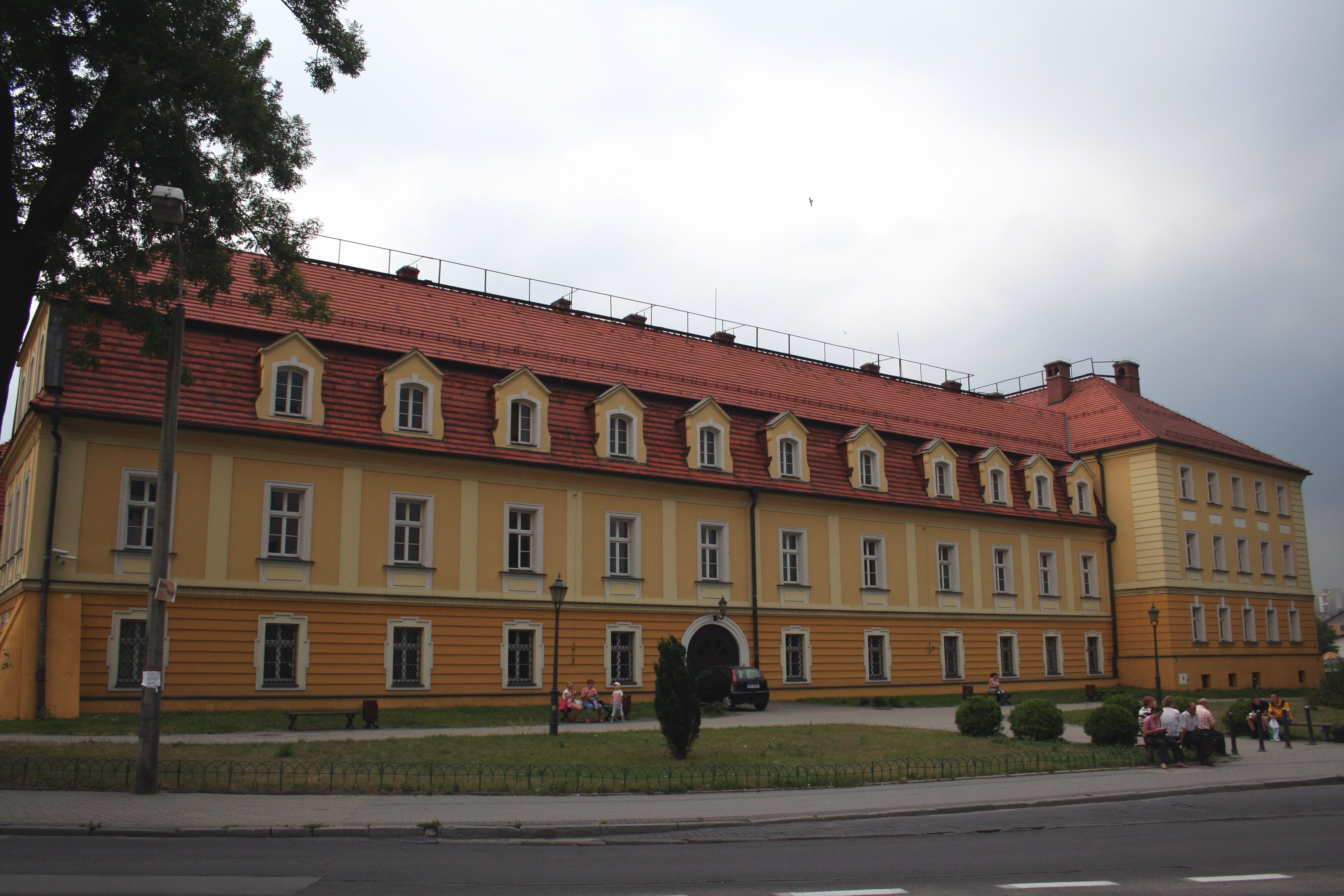 Courthouse building in Rybnik, southern Poland